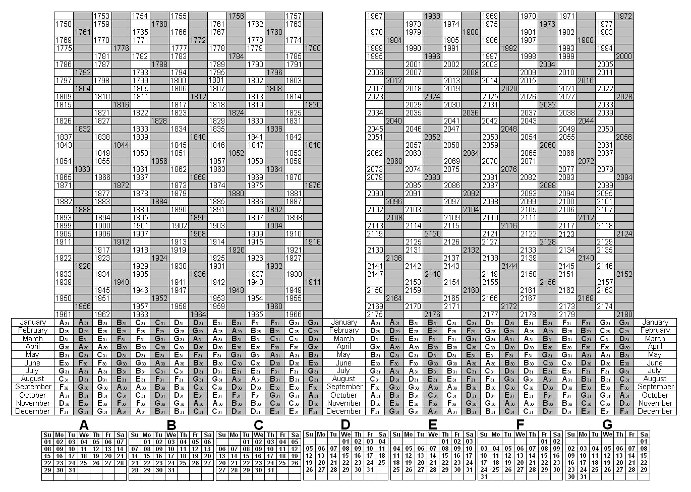 Perpetual Calendar (1753-2180)